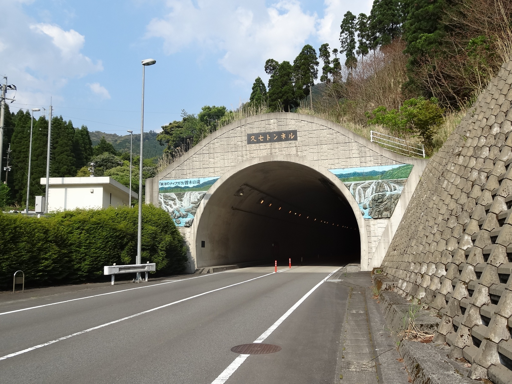 National Route 267 Kyushichi Tunnel (Isa City, Kagoshima, Japan)